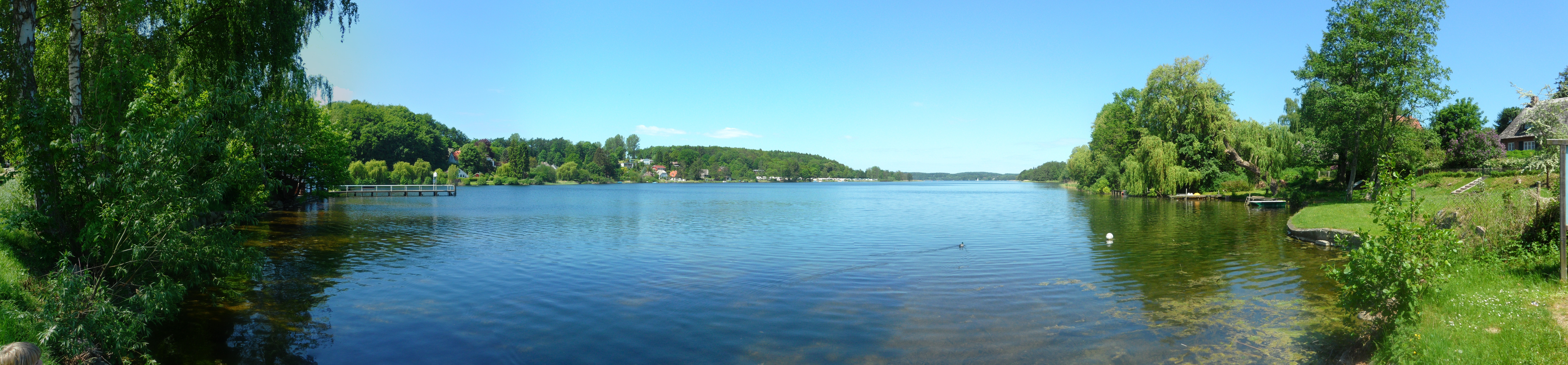 Panoramic from the Kellersee from Fissau